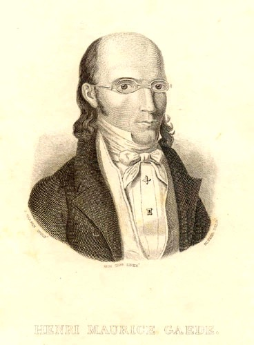 Portrait of Heinrich Moritz Gaede (1795-1834), German naturalist and entomologist